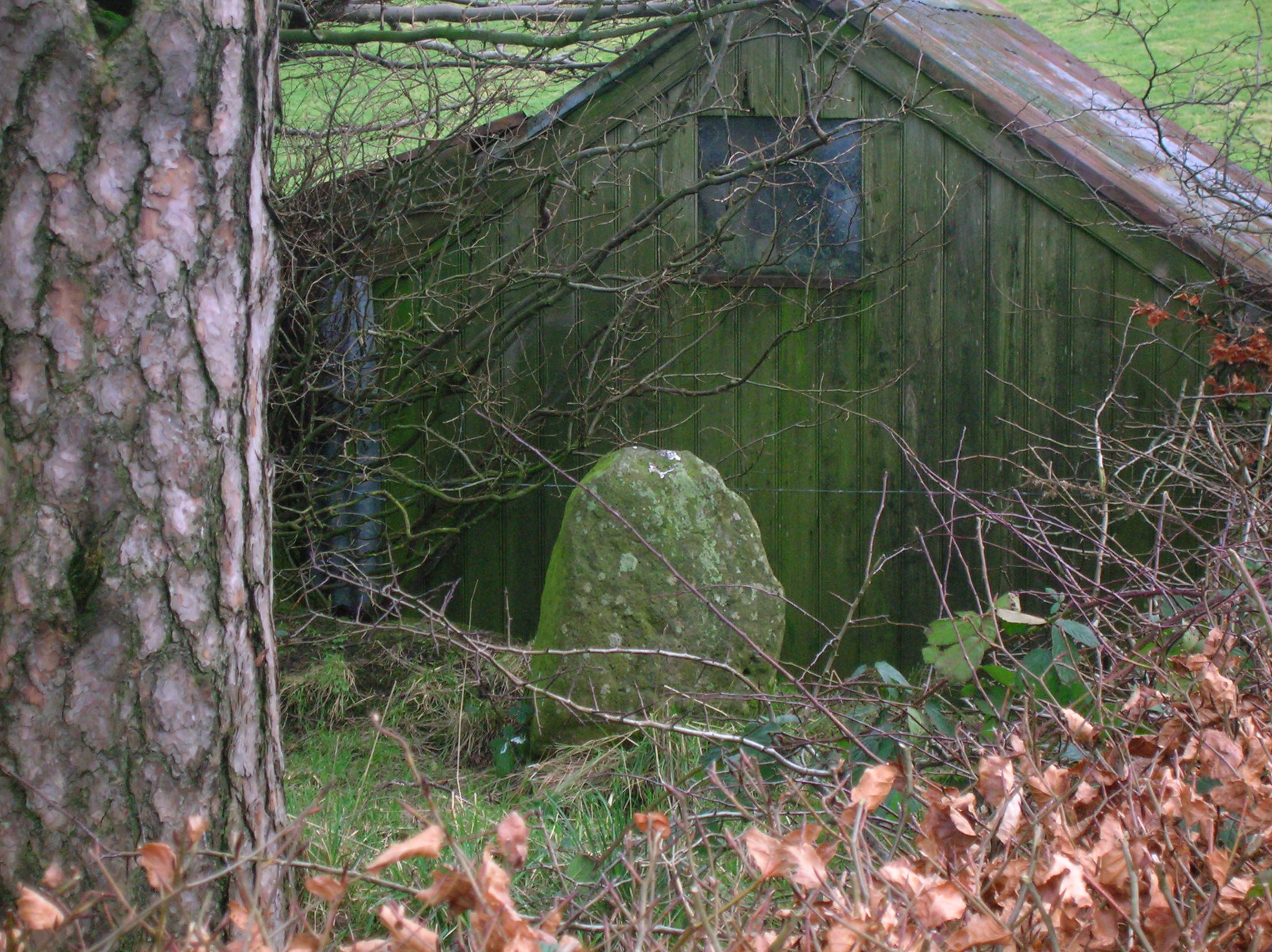 The small standing stone in the Firbank plantation near Chapeltoun House in North Ayrhsire. January 2007.